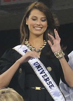 Stefanía Fernández, Miss Universe 2010 at US Open 2009.